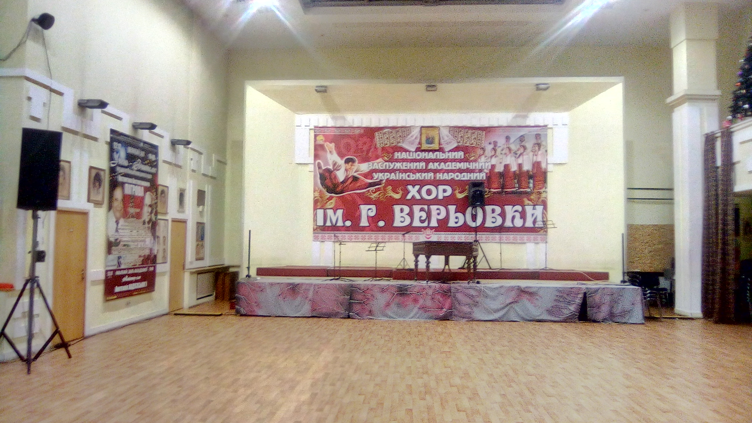 Veriovka choir rehearsal studio